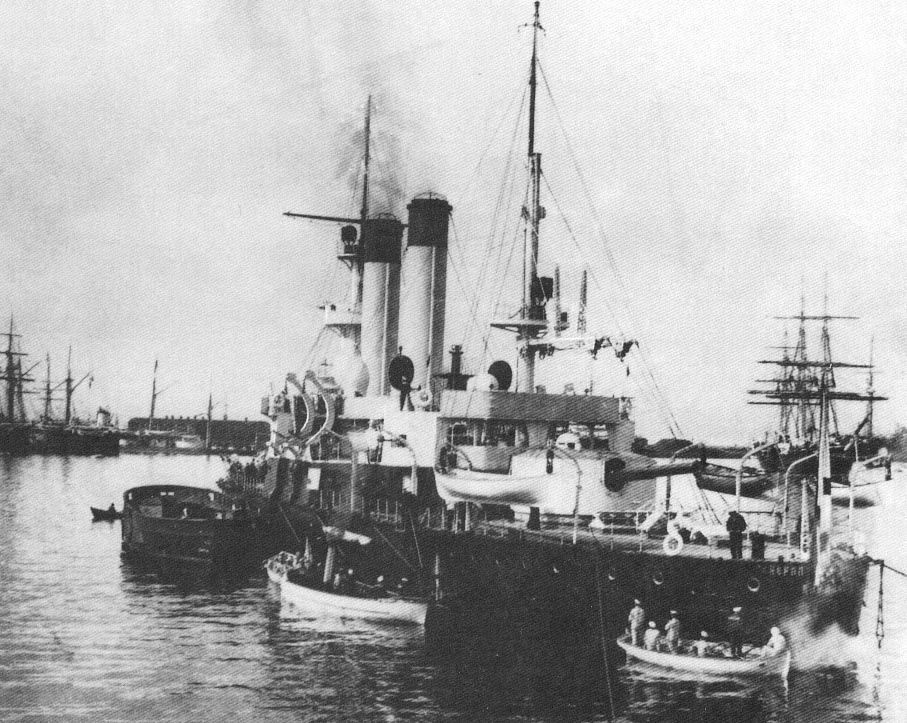 Russian coastal defense battleship General-Admiral Apraksin in 1902, Kronstadt; it later became the IJN Okinoshima in the Japanese navy.